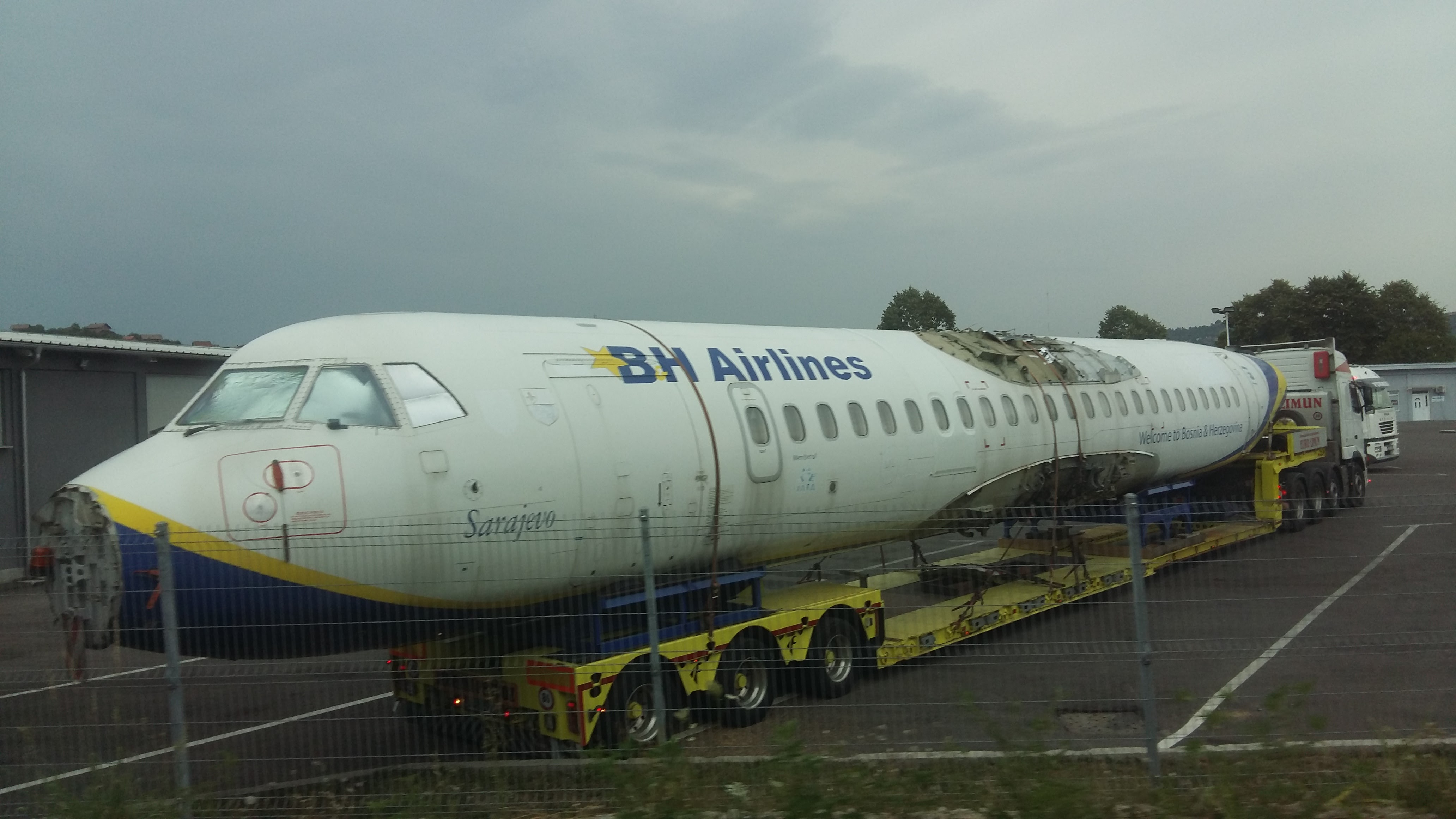 E7-AAD body at Bosnian custom